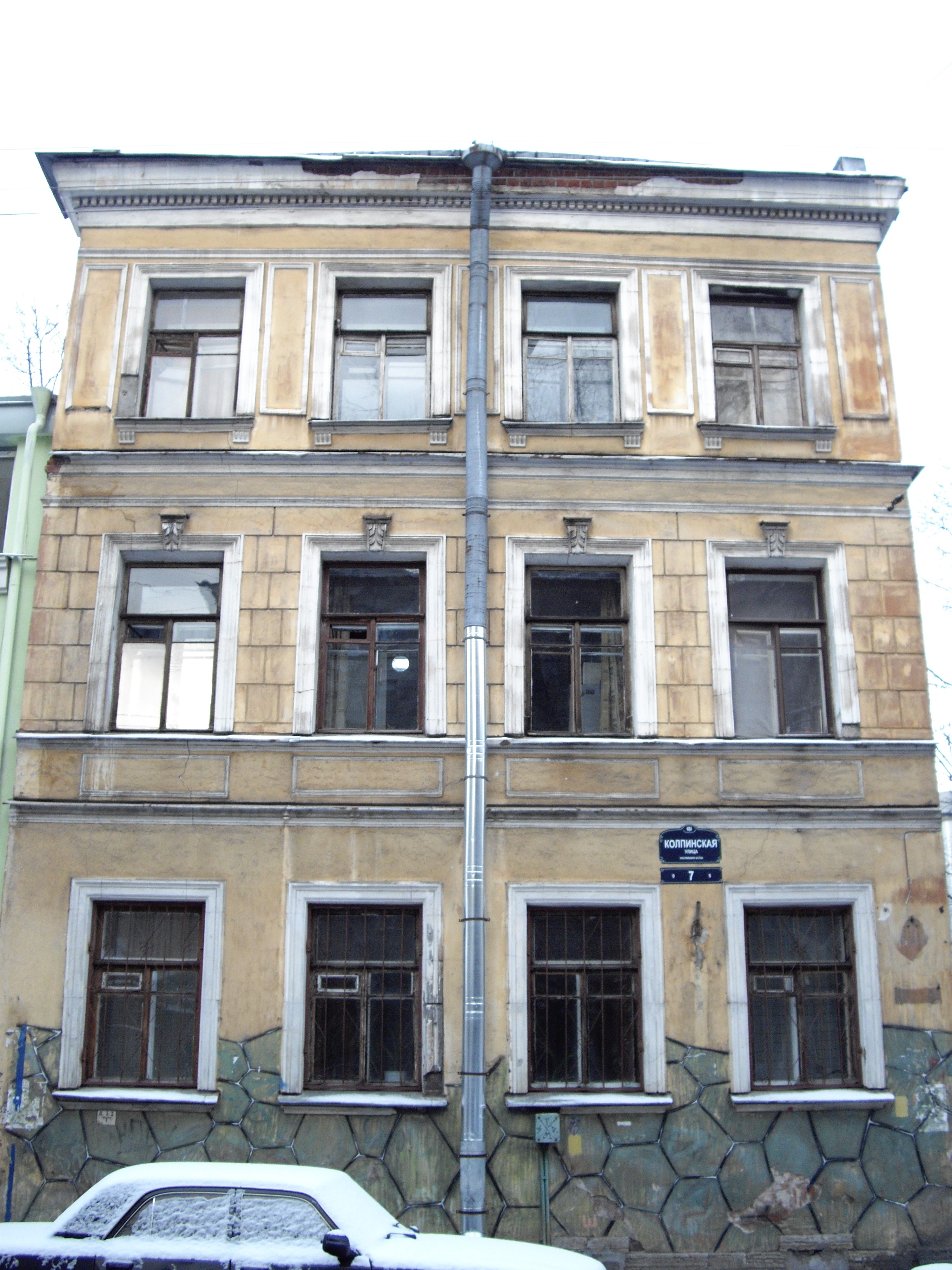 7, Kolpinskaya Street, Saint Petersburg (1899, architect Dmitry Shagin)